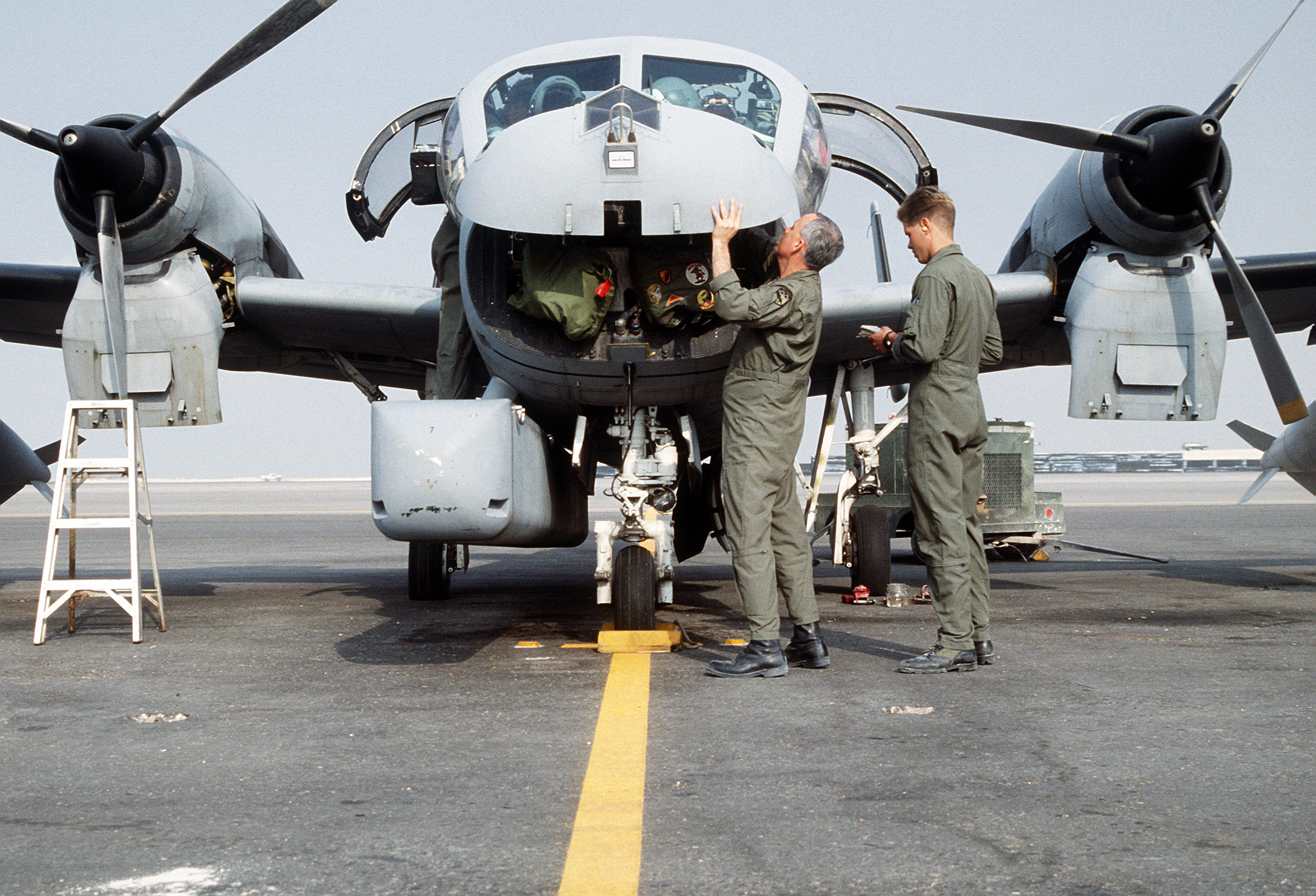 Chief Warrant Officer John Fowler and Spc. Morgan Devane perform a pre-flight inspection of an OV-1D Mohawk surveillance aircraft during Operation Desert Storm.